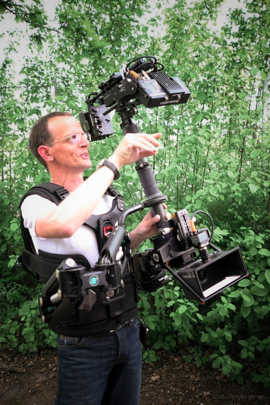 Curt O. Schaller: cinematographer, steadicam operator, photographer / inventor and designer of the camera stabilizer systems artemis by ARRI (previously Sachtler / Vitec Videocom) / rig: artemis Cine HD Pro